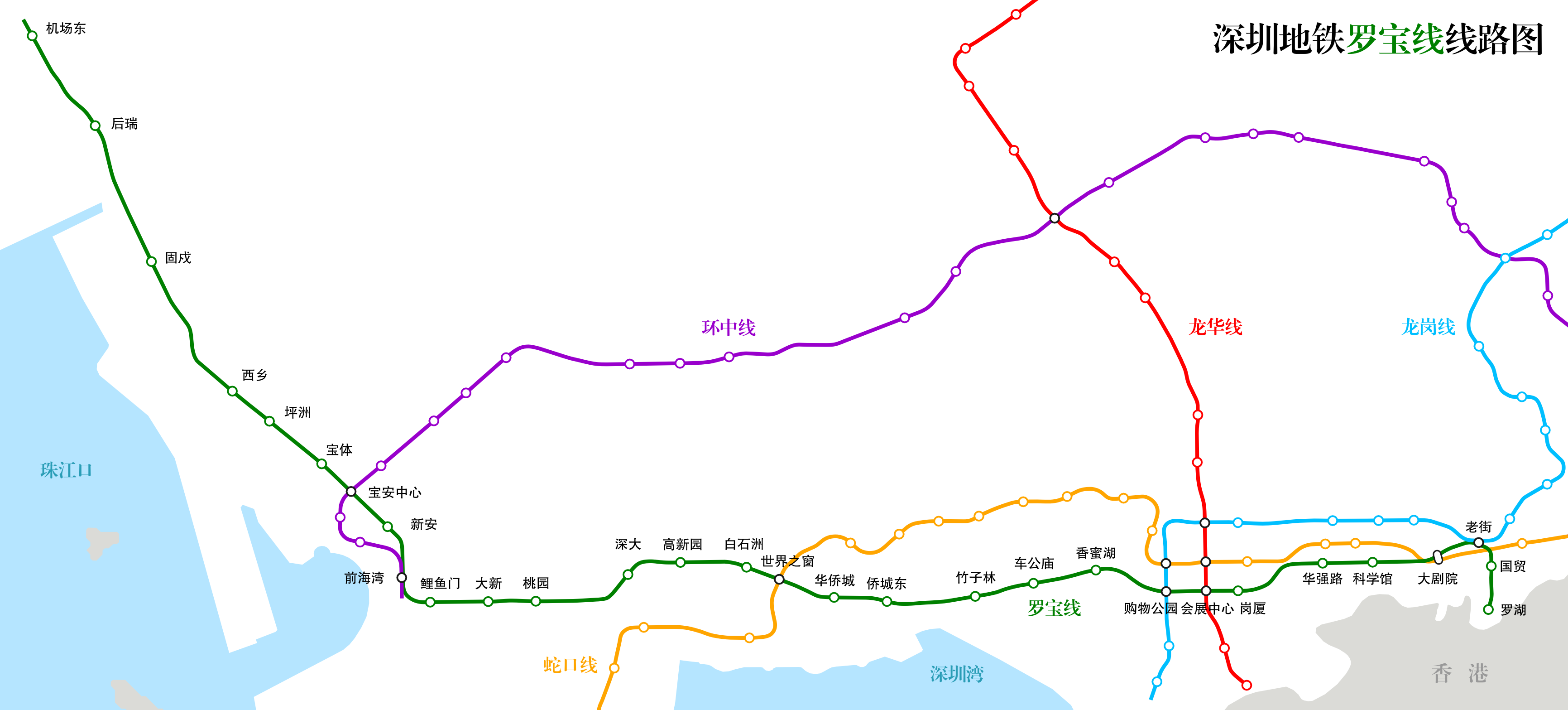 Geographically accurate map of the Luobao Line, Shenzhen Metro.